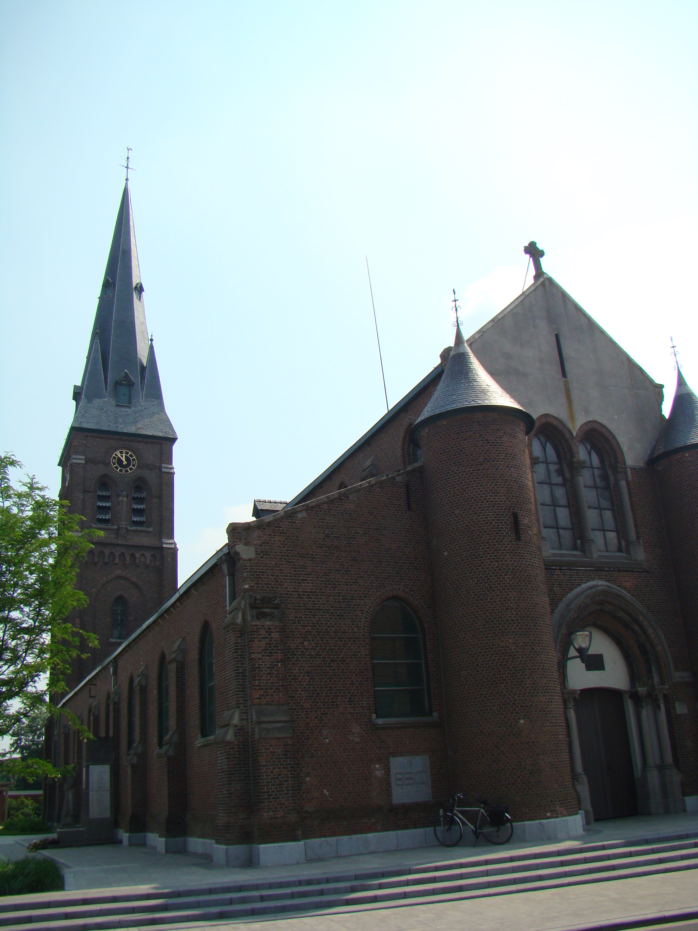 Sint-Michiels church Kuurne (West Flanders, Belgium)